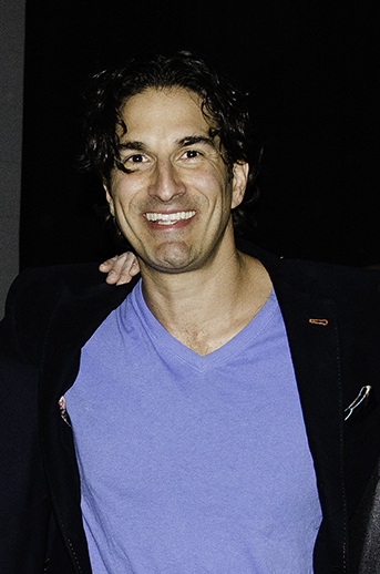 Image from Comics Come Home 2013 event with Robert Kelly, John Mulaney, Gary Gulman, Tom Cotter (l-r)